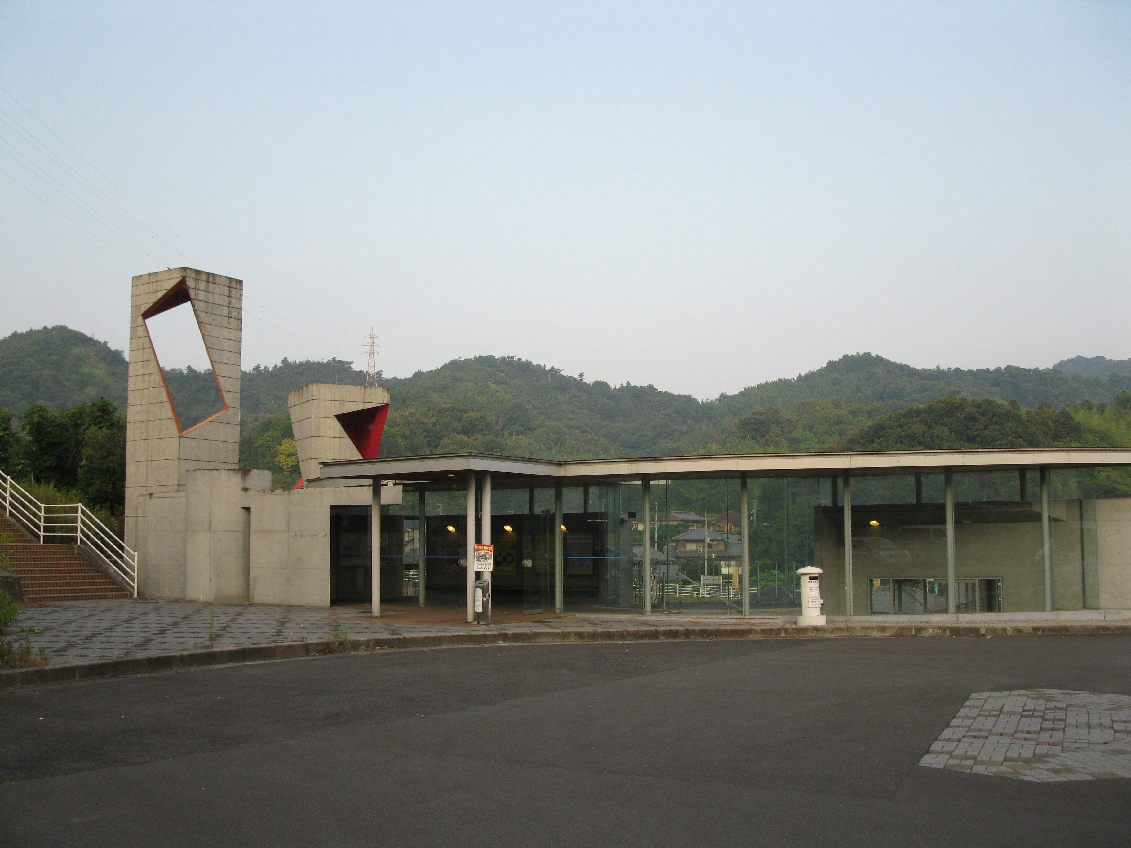 Orange Town Station entrance (Shikoku Railway(JR Shikoku) Kōtoku Line)